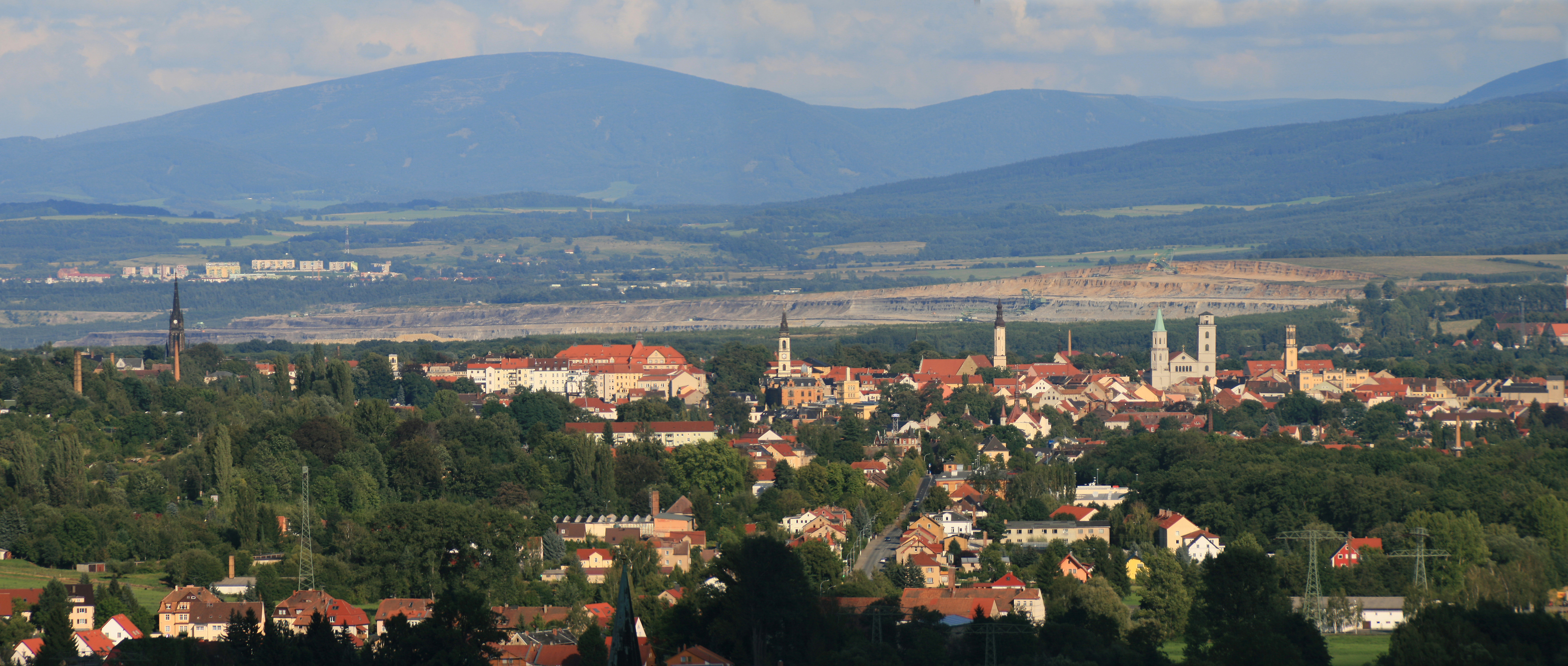 Zittau, view from Koitsche mountain